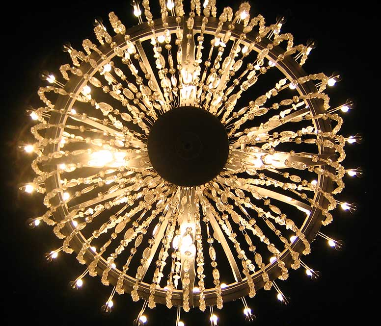 Chandelier in st. Kingy chapel, Wieliczka salt mine, Poland